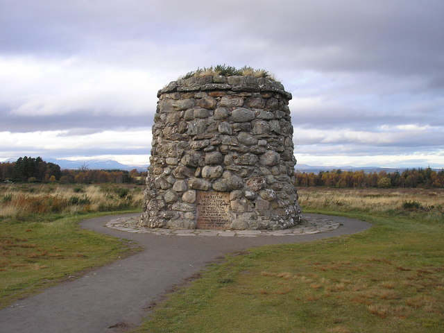 Memorial Cairn on Culloden Battlefield, near to Newlands, Highland, Great Britain.